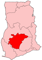 Map of Ghana showing Ashanti region.